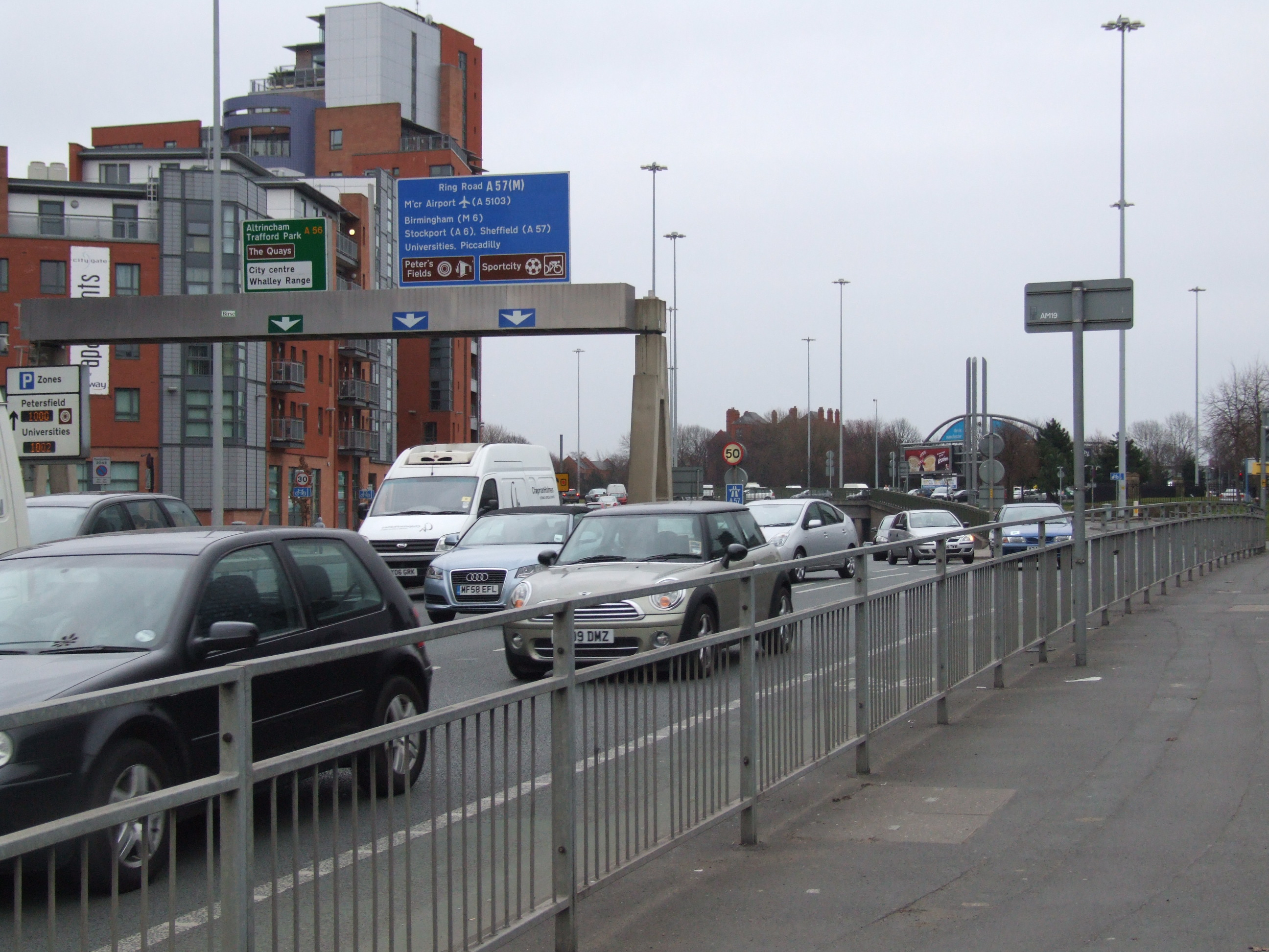 The Bridgewater Canal was commissioned by Francis Egerton, 3rd Duke of Bridgewater, to transport coal from his mines in Worsley to Manchester. Castlefield was the Manchester basin, and it was watered by the River Medlock. A57 start of the Mancunian Way A57(M)